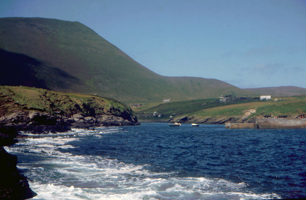 The Voe, Foula This inlet serves as a harbour for Foula. Behind the head of the bay can be seen the Post Office and telephone box. The few houses form the settlement of Ham. Behind the hill of Hamnafield provides a good viewpoint over Ham and the rest of the island.